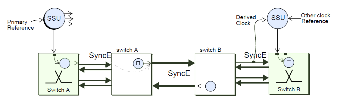 Synchronous Ethernet Network